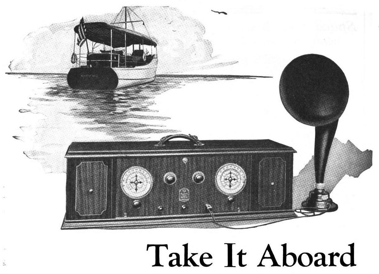 An advertisement for the RCA Radiola AR-812 radio, the first commercially produced superheterodyne radio receiver. The superheterodyne receiver circuit, used in virtually all modern radios, was invented by US engineer Edwin Armstrong in 1918 during World War 1. The rights were purchased by RCA, and the AR-812 medium wave receiver was released March 4, 1924. It used 6 UV-199 triodes: a mixer, a local oscillator, two IF and two audio amplifier stages, with an IF of 45 kHz, and was priced at $289 with tubes and horn speaker, and $220 without. It was built to be semi-portable, with compartments for the batteries in back and a handle on top, although it weighed 30 lbs. without batteries. The two large knobs are the input and local oscillator tuning, they had to be adjusted in tandem. They had blank carboard dials, so users could mark the positions of stations on them. The small knobs adjust the filament current. Its superior sensitivity and selectivity compared to competing receivers made it a commercial success. There are many reports of transcontinental and transoceanic reception. In an apparent attempt to prevent competitors "reverse-engineering" it, the innards were encased in solid wax. Alterations to image: Cropped out advertising copy